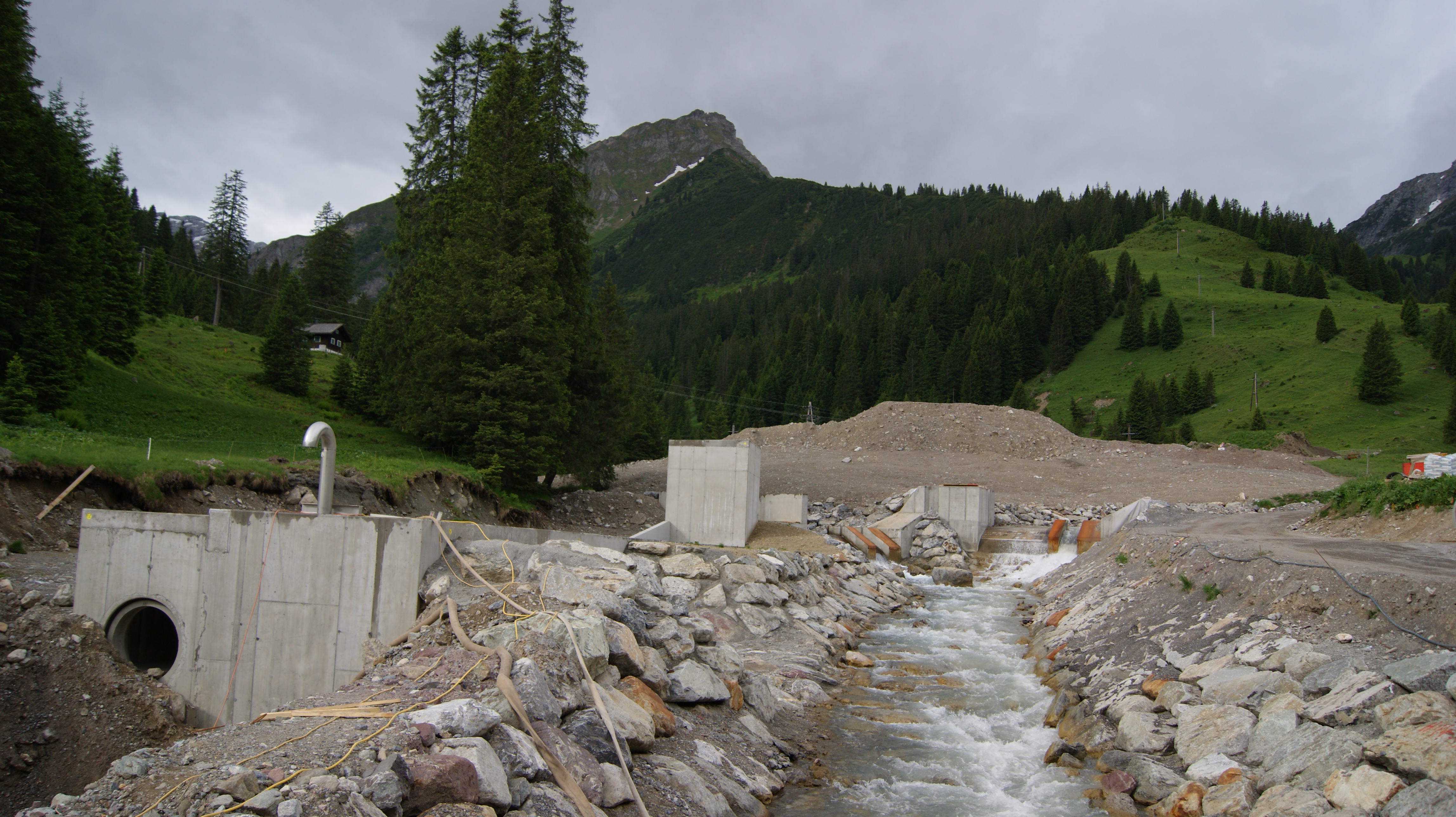 Rellswerk (shaft power plant) in the valley: "Rellstal", Vandans, Vorarlberg, Austria. Confluence Zaluandabach and Lünbach (Vilifaubach) - rack- / gate constructions of the new power plant.